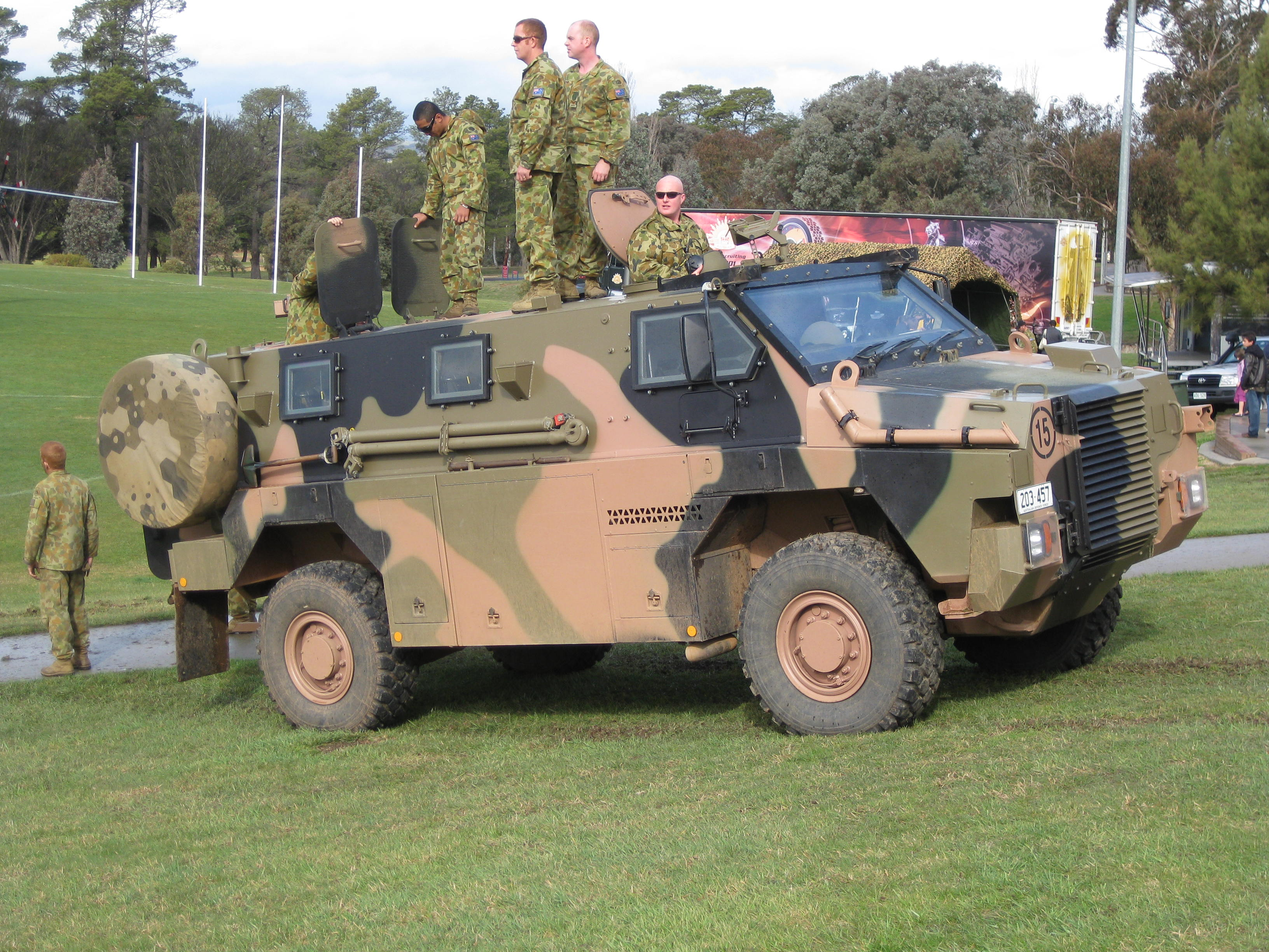 An Australian Army Bushmaster Protected Mobility Vehicle at the 2009 Australian Defence Force Academy open day.